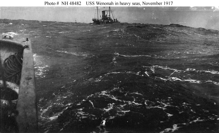 Photo #: NH 48482. USS Wenonah (SP-165). Built by George Lawley and Son. Seen from USS Margaret (SP-527) while steaming through heavy seas en route from Bermuda to the Azores, November 1917. Photographed by Raymond D. Borden. U.S. Naval Historical Center Photograph.